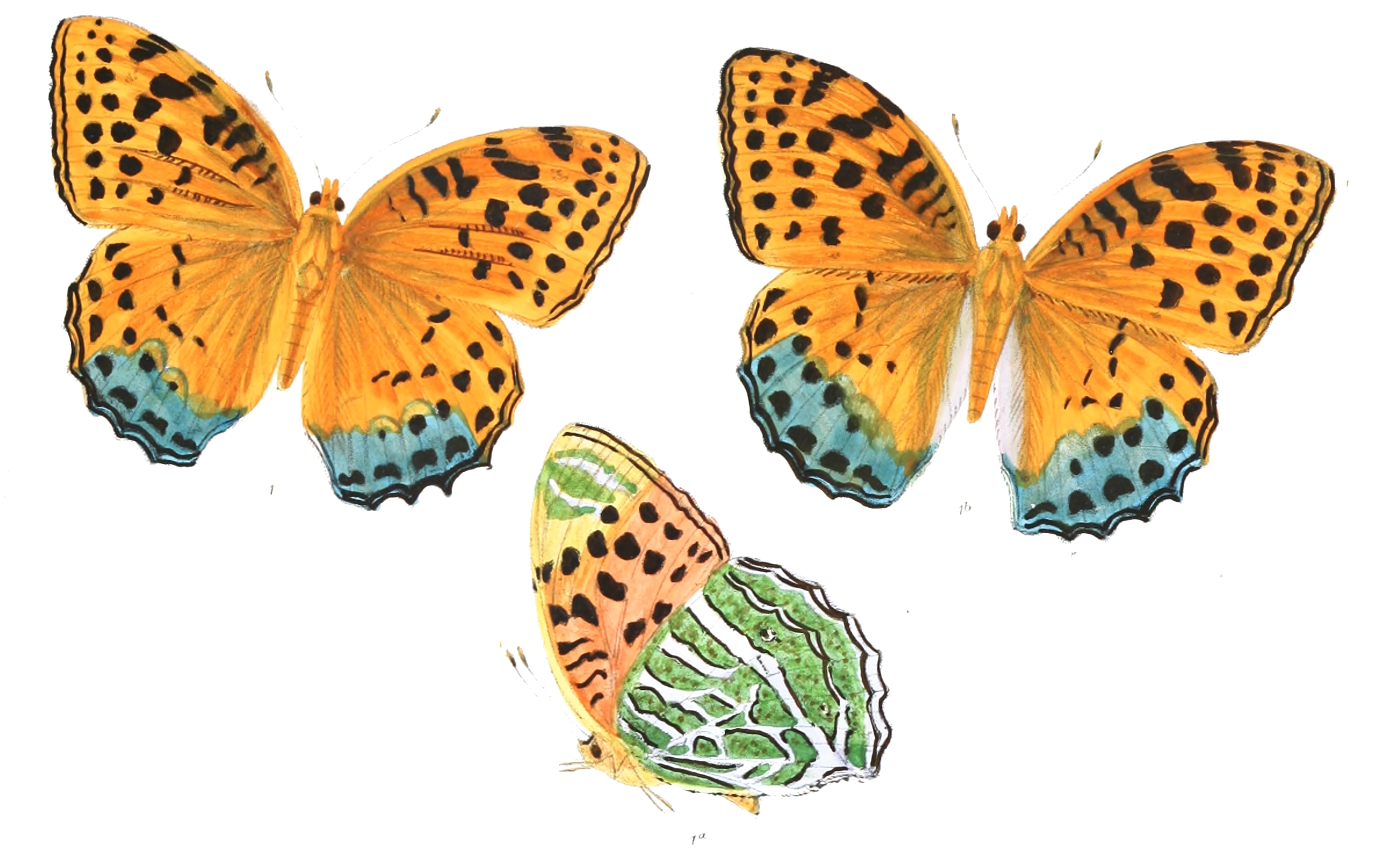 Dryas childreni = Childrena childreni